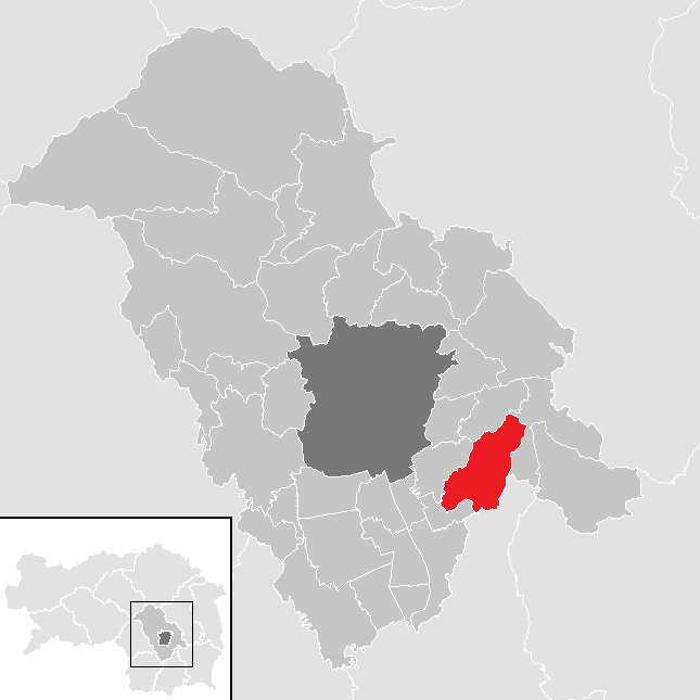 District Graz-Umgebung, Styria